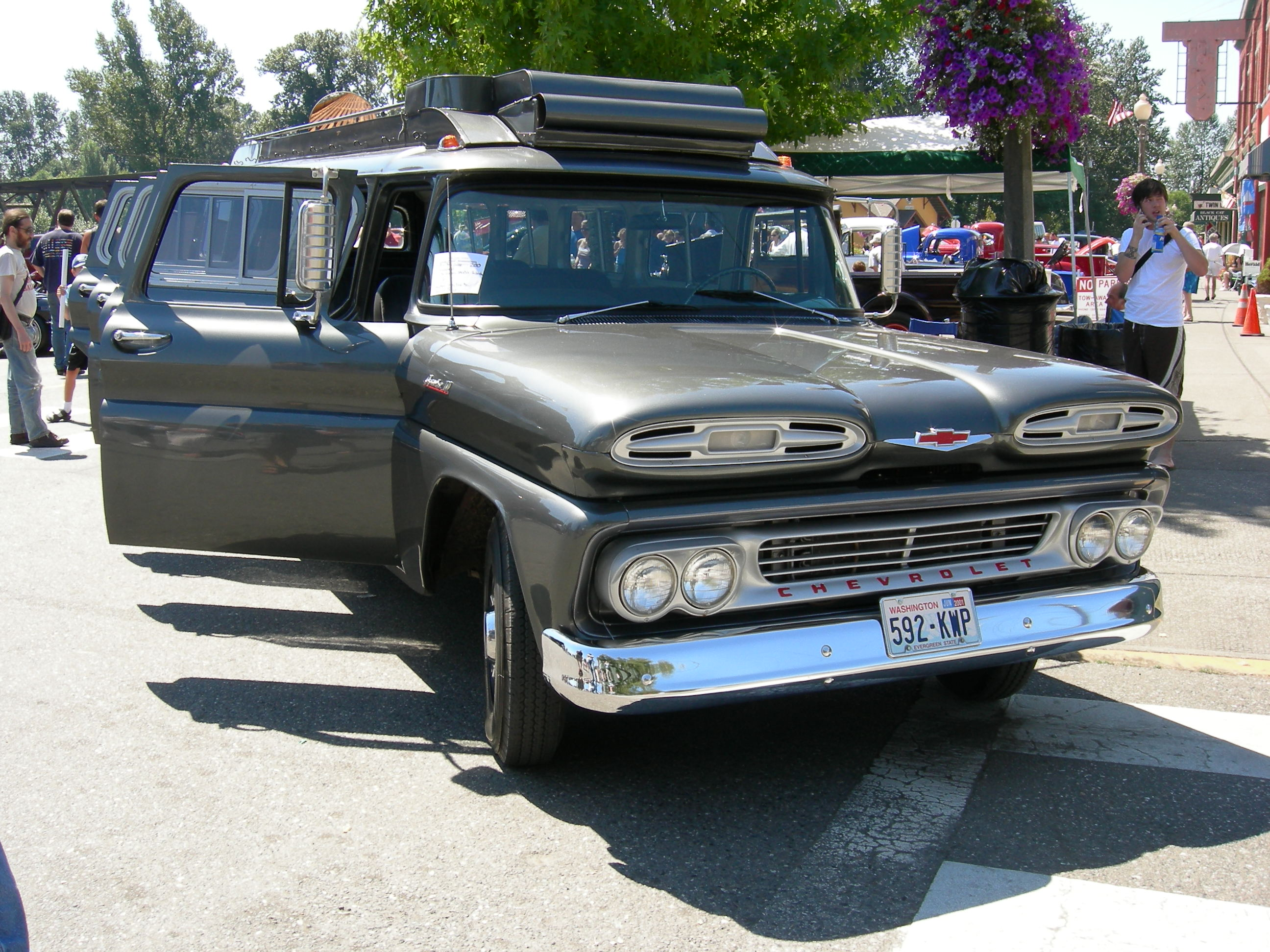 1961 Chevy Stretch Suburban, photographed at Kla-Ha-Ya days, Snohomish, Washington